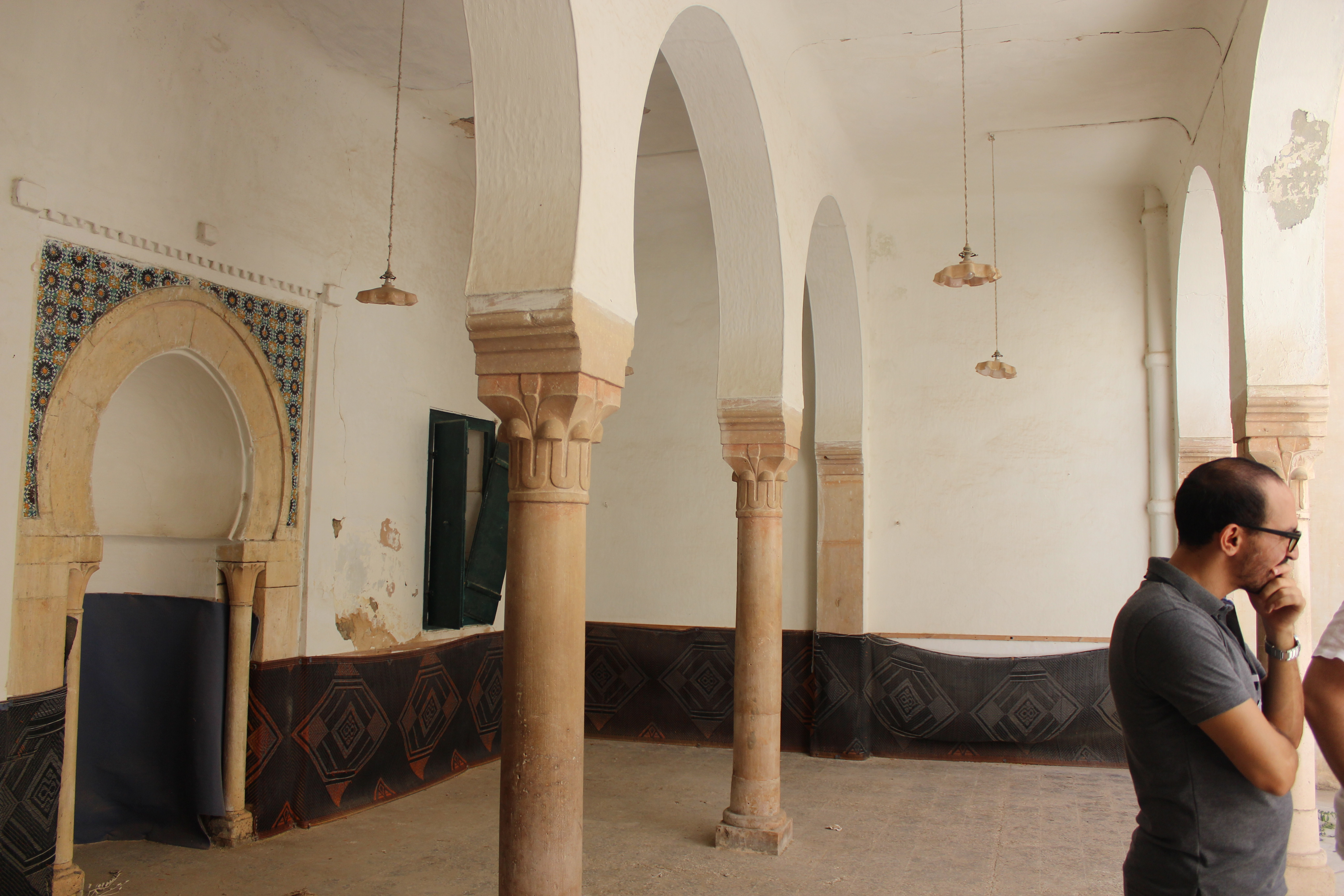 Court of Sidi Ali Ennouri mausoleum in the medina of Sfax.